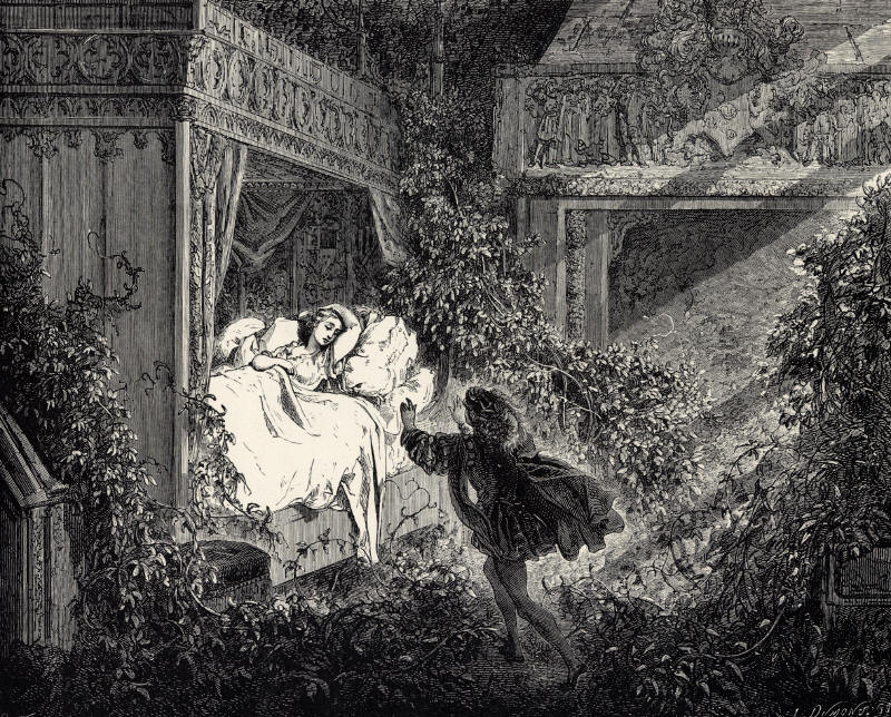 Illustration for Charles Perrault's La Belle au Bois Dormant from Histoires ou Contes du Temps passé: Les Contes de ma Mère l'Oye (1697). Gustave Doré's illustrations appear in an 1867 edition entitled Les Contes de Perrault. Sixth of six engravings